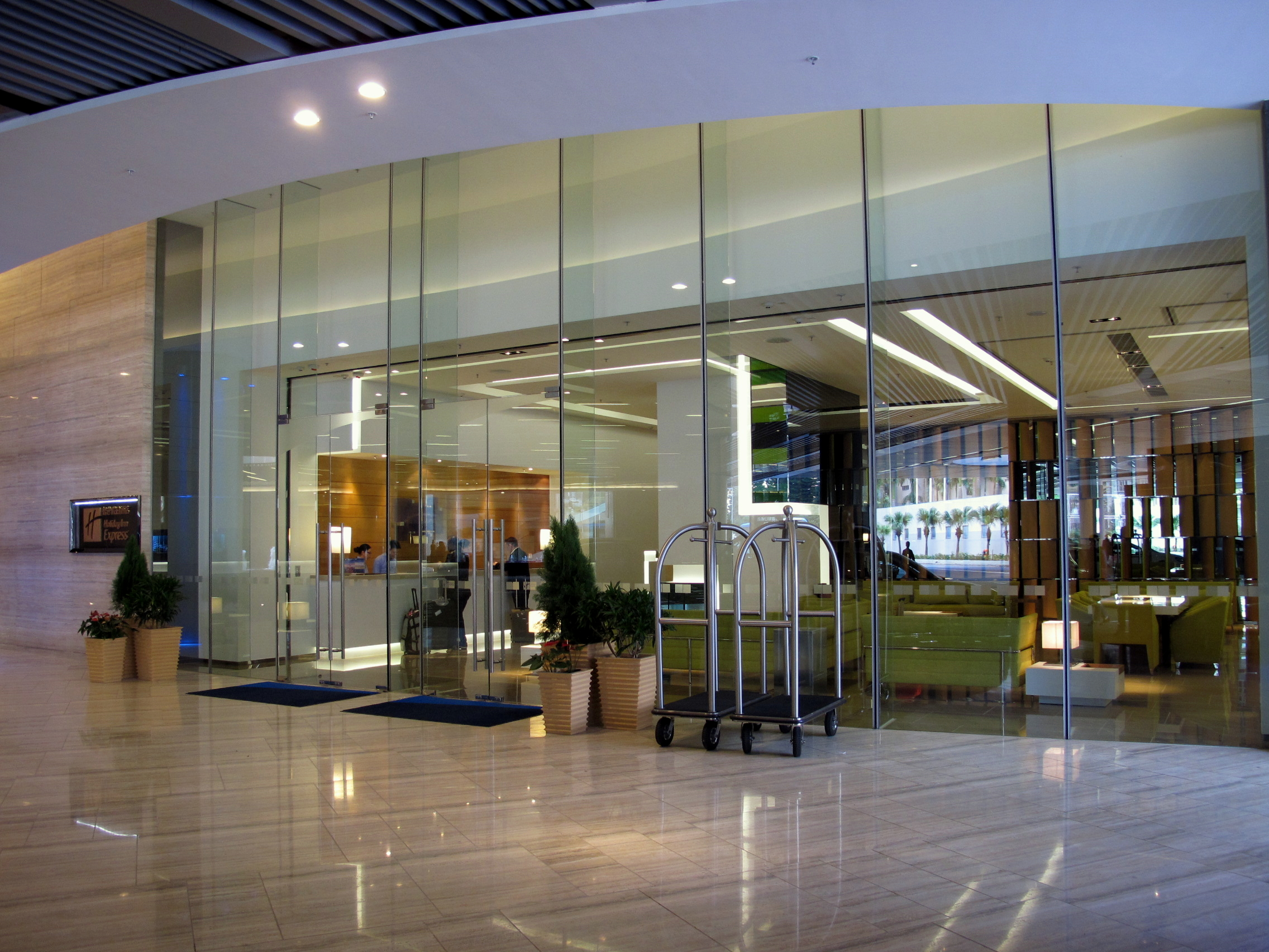 Holiday Inn Express Hong Kong Kowloon East Enterance 香港九龍東智選假日酒店